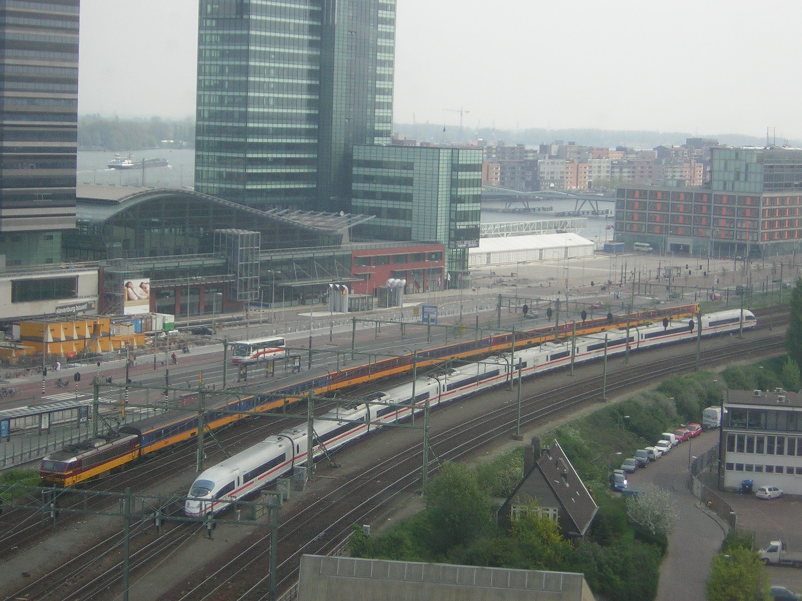 1191 passes an ICE near Amsterdam Centraal